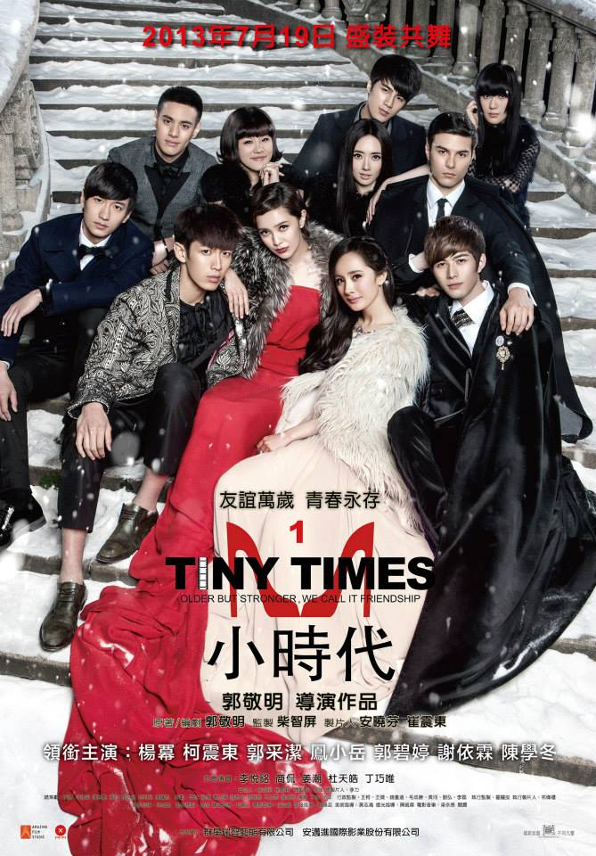 This is a poster of Tiny Times.